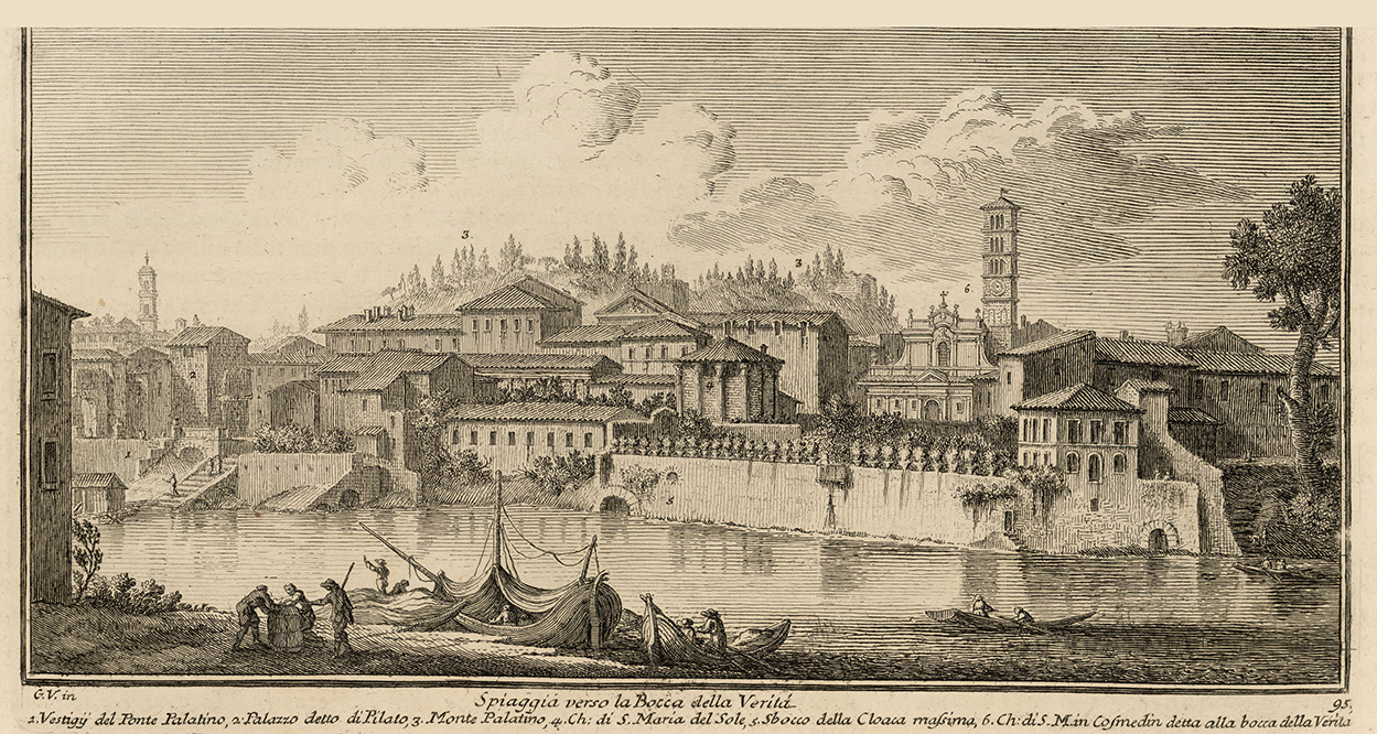 1) Ruin of Ponte Palatino (better known as Ponte Emilio or Ponte Rotto); 2) Palazzo di Pilato; 3) Monte Palatino; 4) S. Maria del Sole (Tempio di Vesta); 5) Discharge point of Cloaca Massima; 6) S. Maria in Cosmedin aka Bocca della Verità.